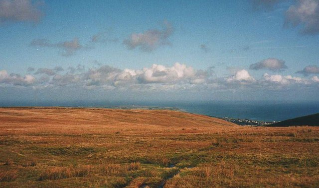 Moorland north of Mountain Box View across flattish moorland. Beyond is the north of the island and Point of Ayre. Ramsey is just visible at the end of Glen Auldyn on the right.